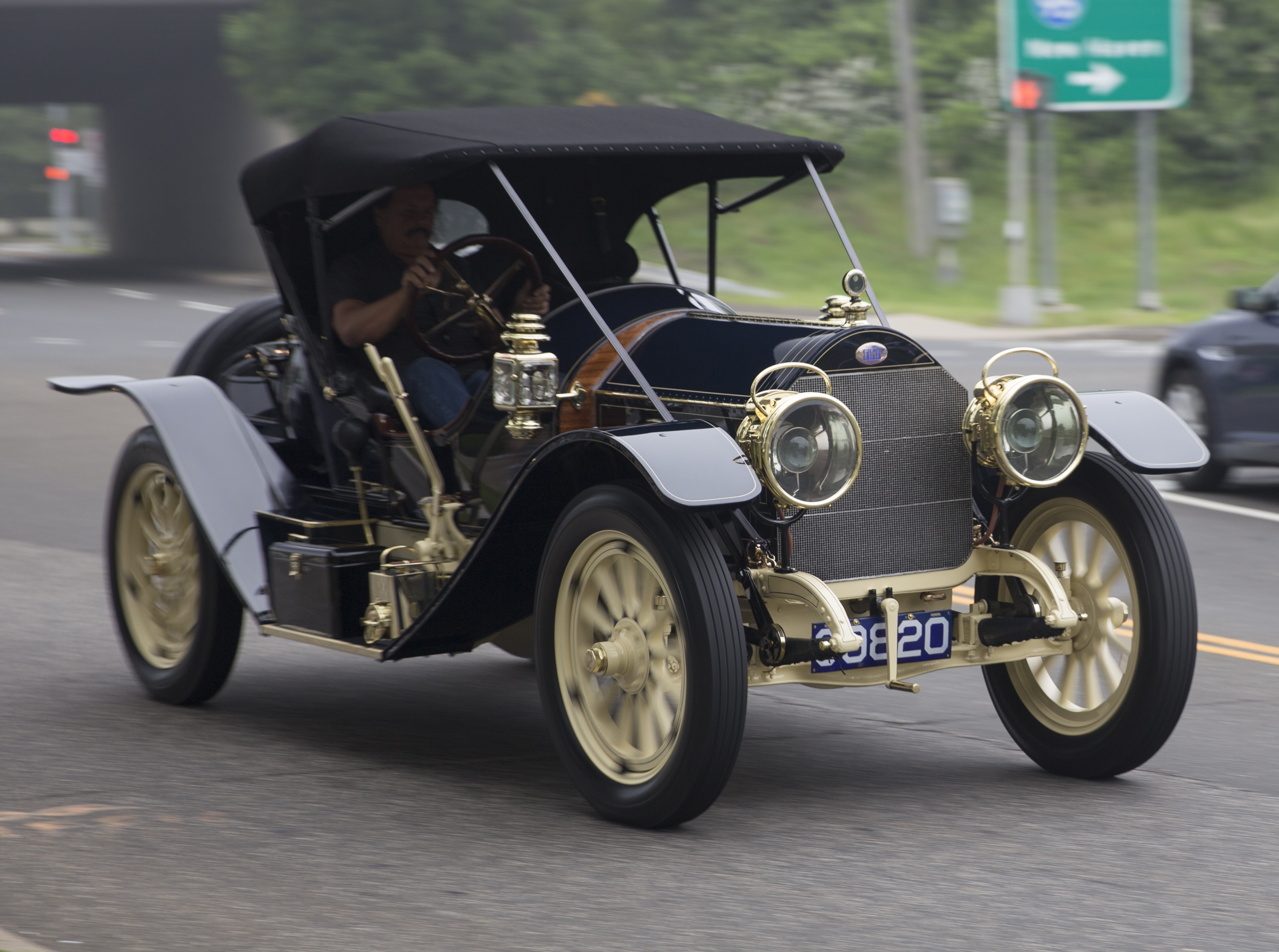 1912 Fiat Type 55 Fleetwood Roadster entering the 2019 Greenwich Concours d'Elegance. A different car than the 1914 Type 56 Riviera listed in the programme, but I am not going to complain. This was largely identical to the Tipo 5 Fiat sold in Europe, but built in Fiat's Poughkeepsie plant. Chassis no F5426.